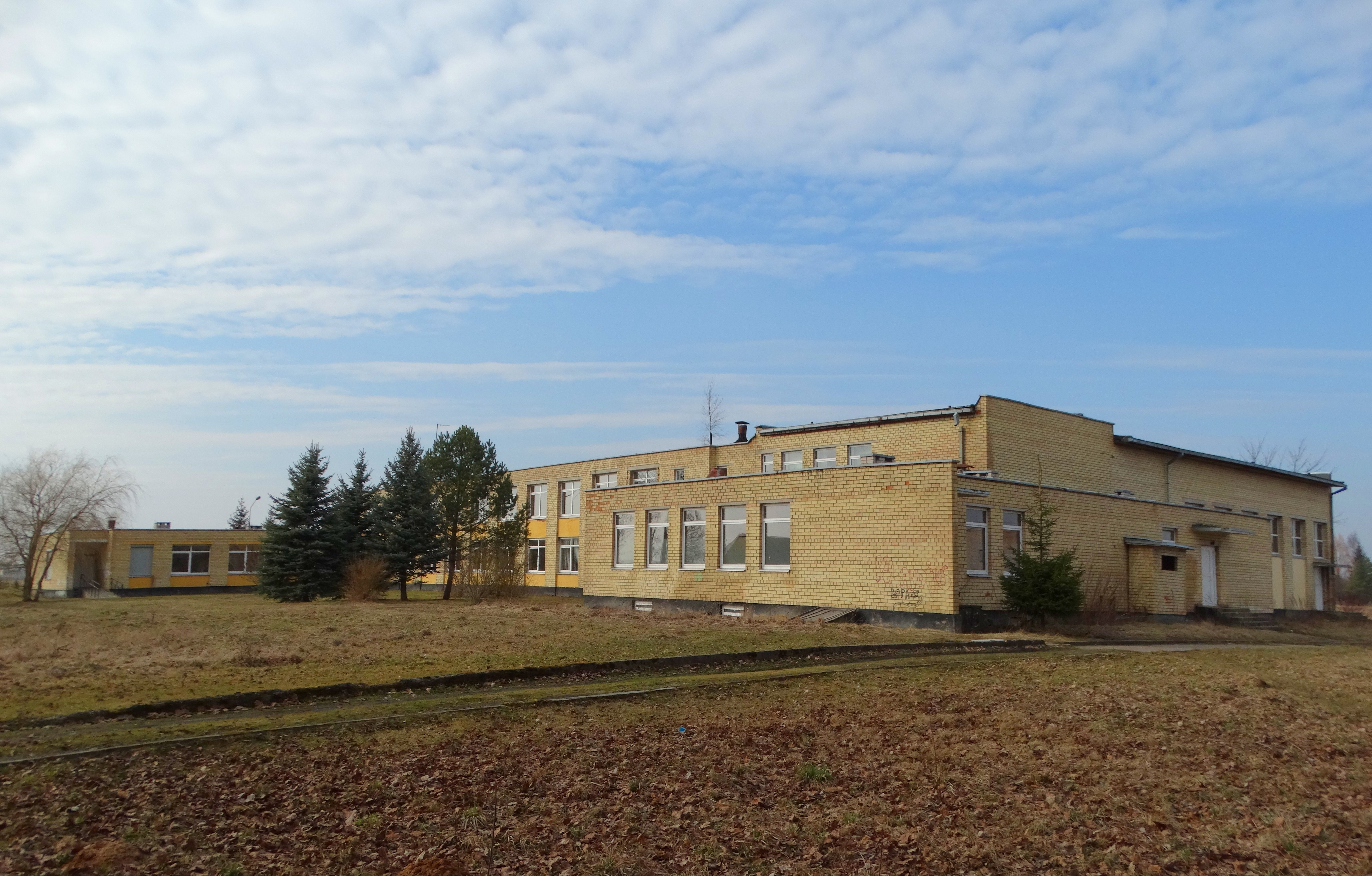 Kunioniai, school, Kėdainiai district, Lithuania